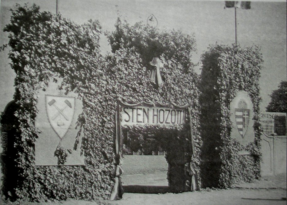 Very nice composition around the stadium gate